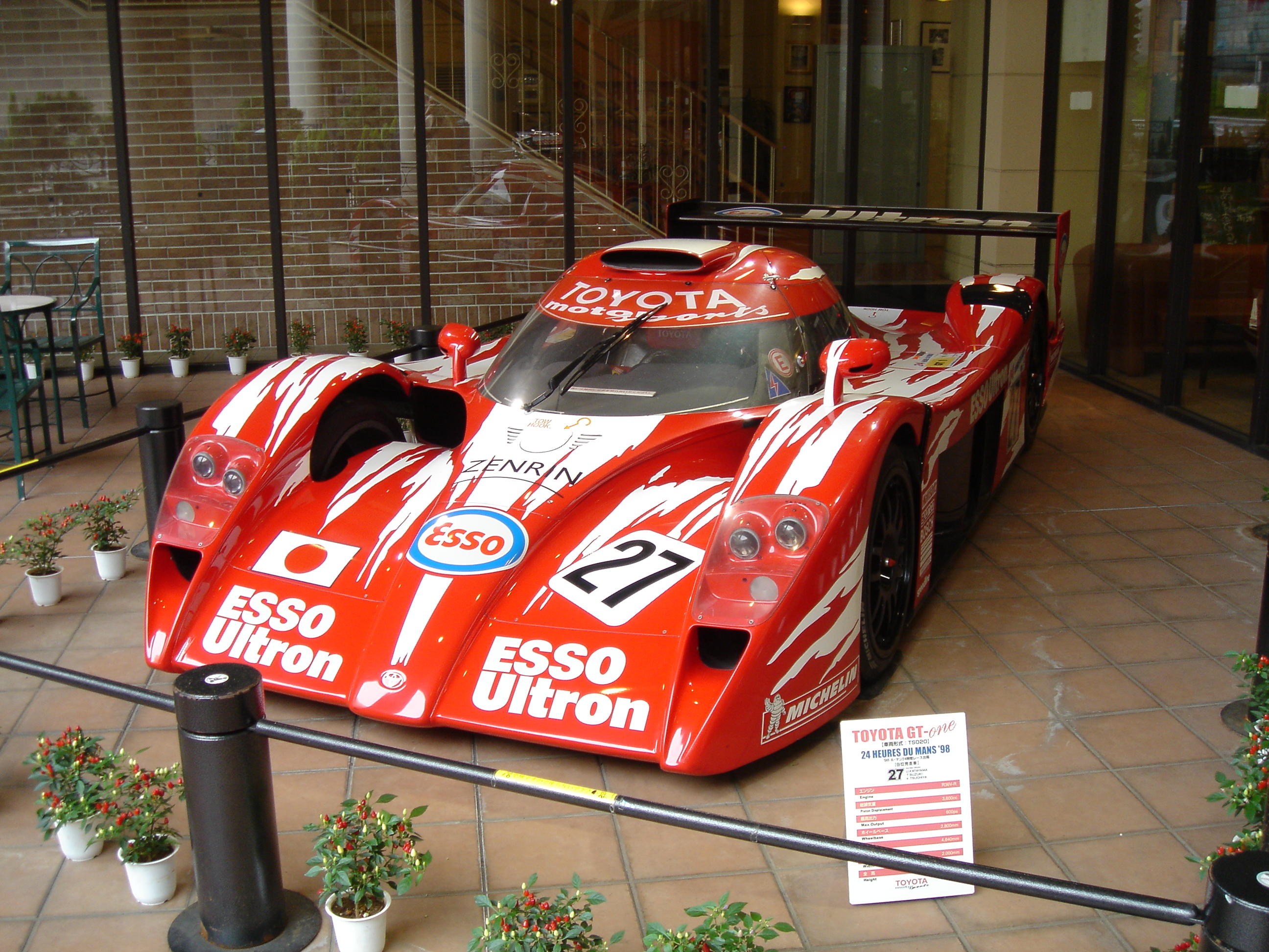 Toyota GT-One Car